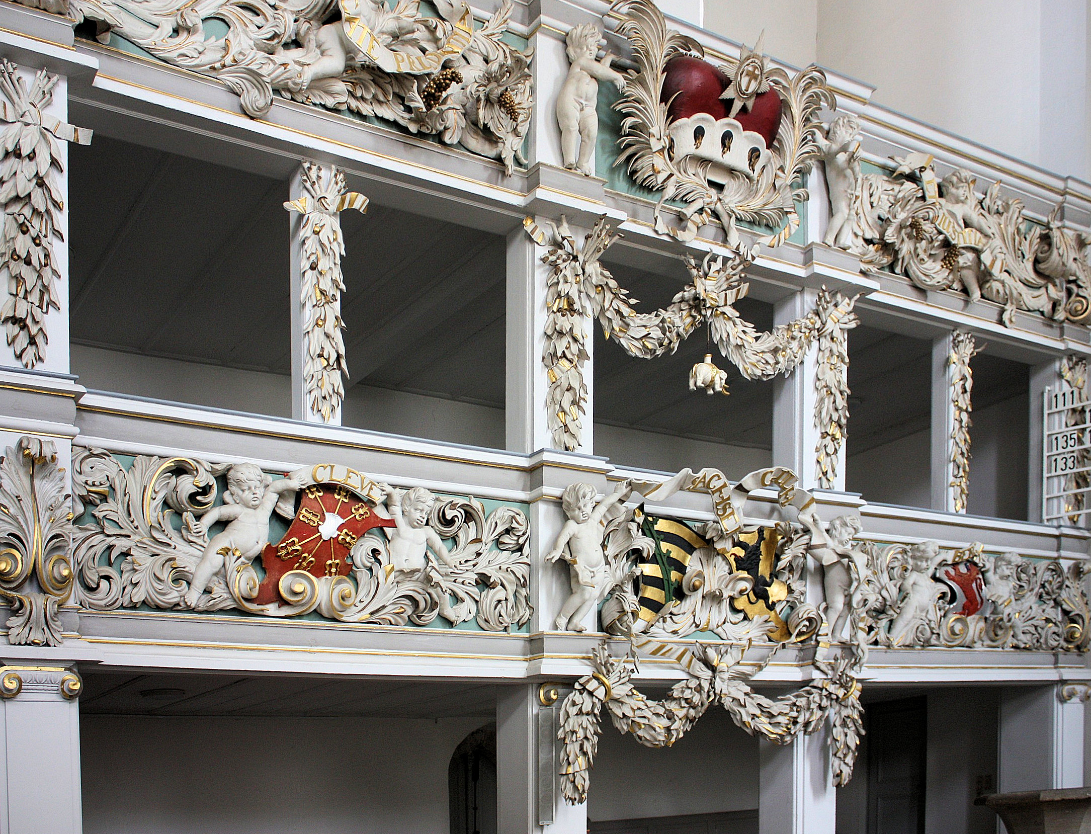 Gotha, the Augustinerkirche, prince boxes